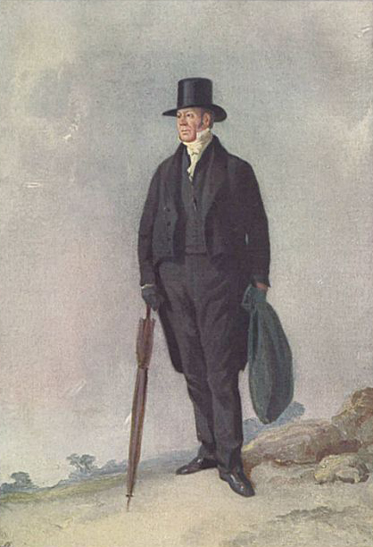 Reverend William Buckland (1784-1856), British geologist, palaeontolgist, and President of the Geological Society of London. This painting was made in 1843 when Buckland was 59 of age. The bag in his left hand contained the fossils he collected. Reverend William Buckland (1784-1856), britischer Geologe und Paläontologe und Präsident der Geological Society of London. Das Gemälde wurde 1843 angefertigt und zeigt Buckland im Alter von 59 Jahren. Der Beutel in seiner linken Hand enthielt die von ihm gesammelten Fossilien.